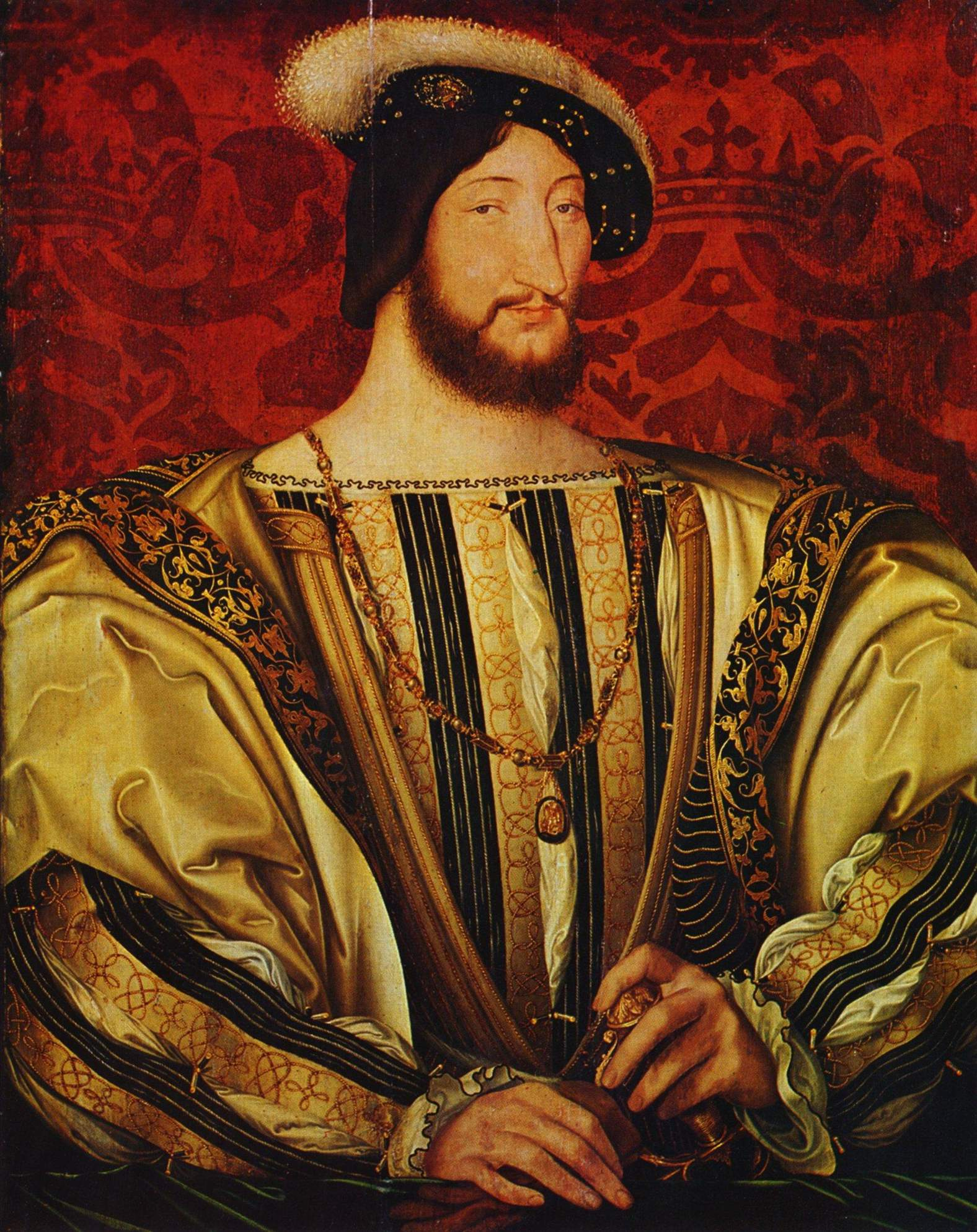 without frame